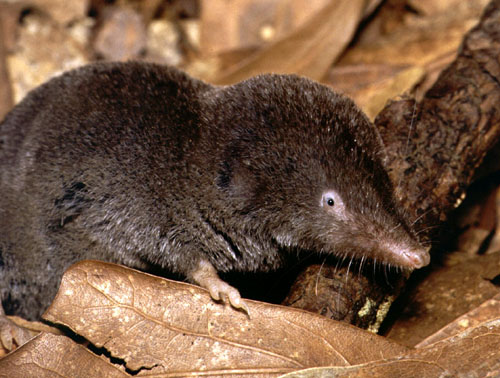 Southern Short-tailed Shrew , Blarina carolinensis, lateral view Durham, North Carolina, United States. Date approximate.